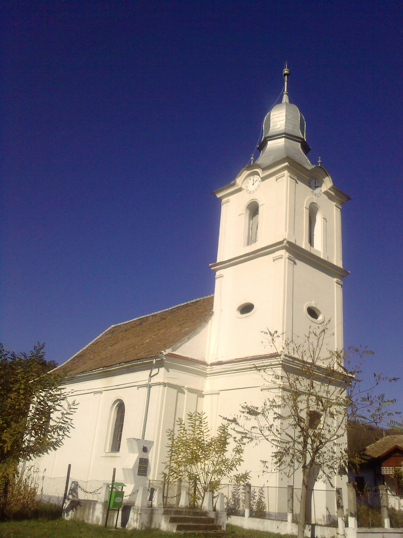 Haghita County, Secuieni, Reformed Church